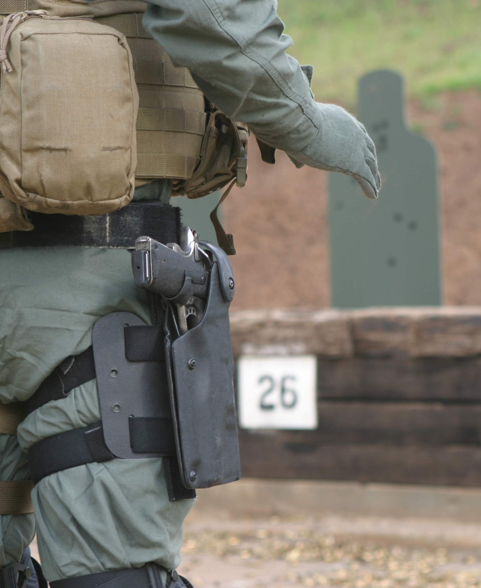 In a true western fashion, a Marine from 3rd Platoon, 1st Force Recon Company, prepares to draw his .45 and insert a round into the brain of his target during Dynamic Assault Course training. The platoon will be the tip of the spear the 13th Marine Expeditionary Unit's ground combat element.